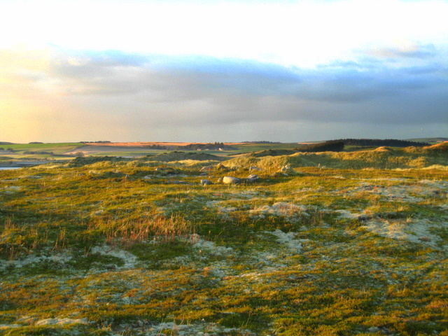 Forvie Moor Forvie moor with the Ythan Estuary in the distance. The large rocks are the base of an iron age hut.